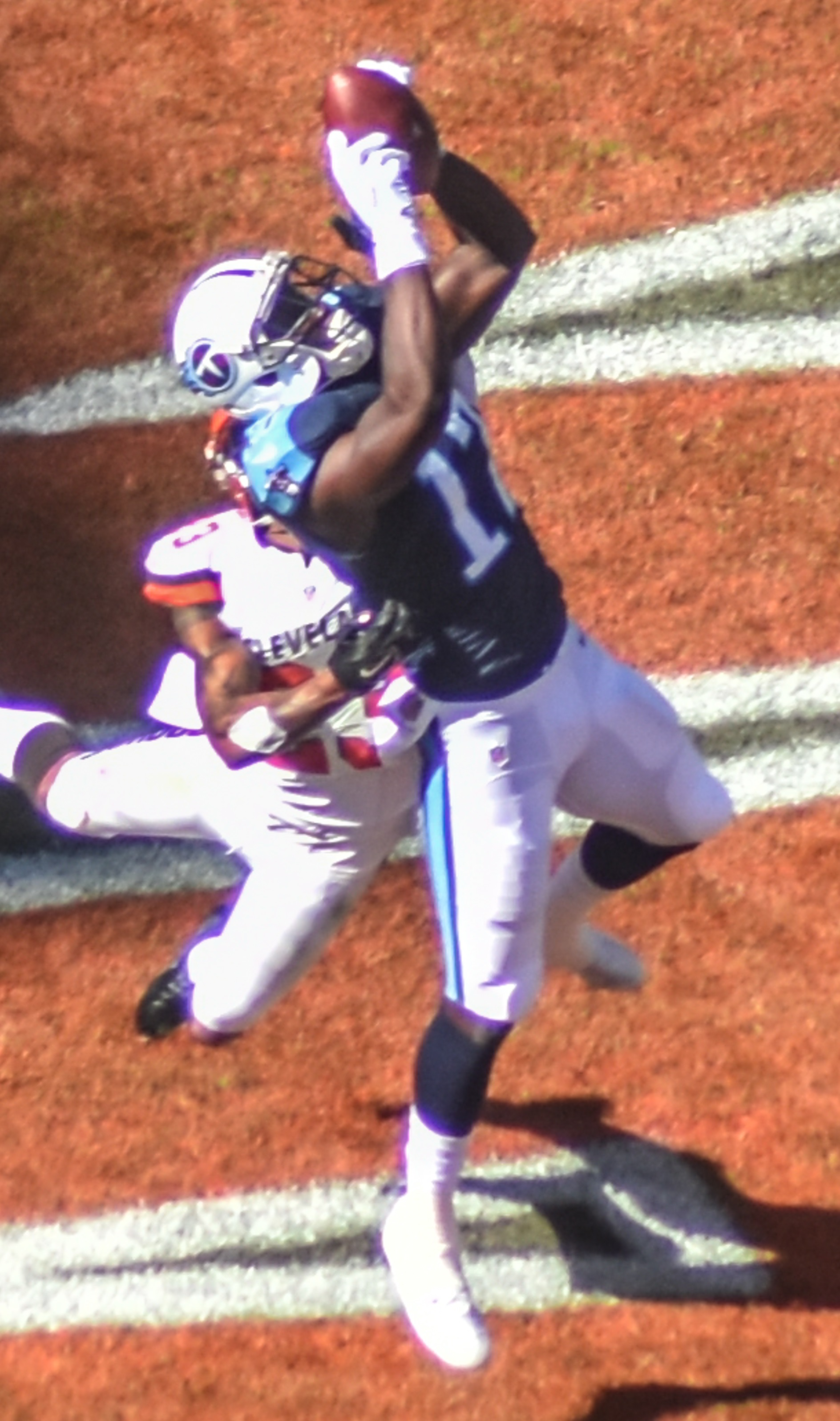 Dorial Green-Beckham receiving the first touchdown of his career